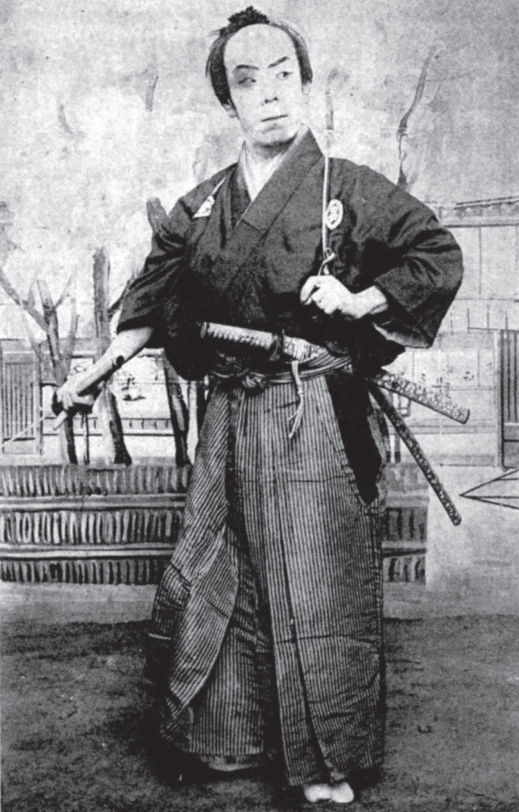 Mastunosuke Onoe in the filming of one of his films.